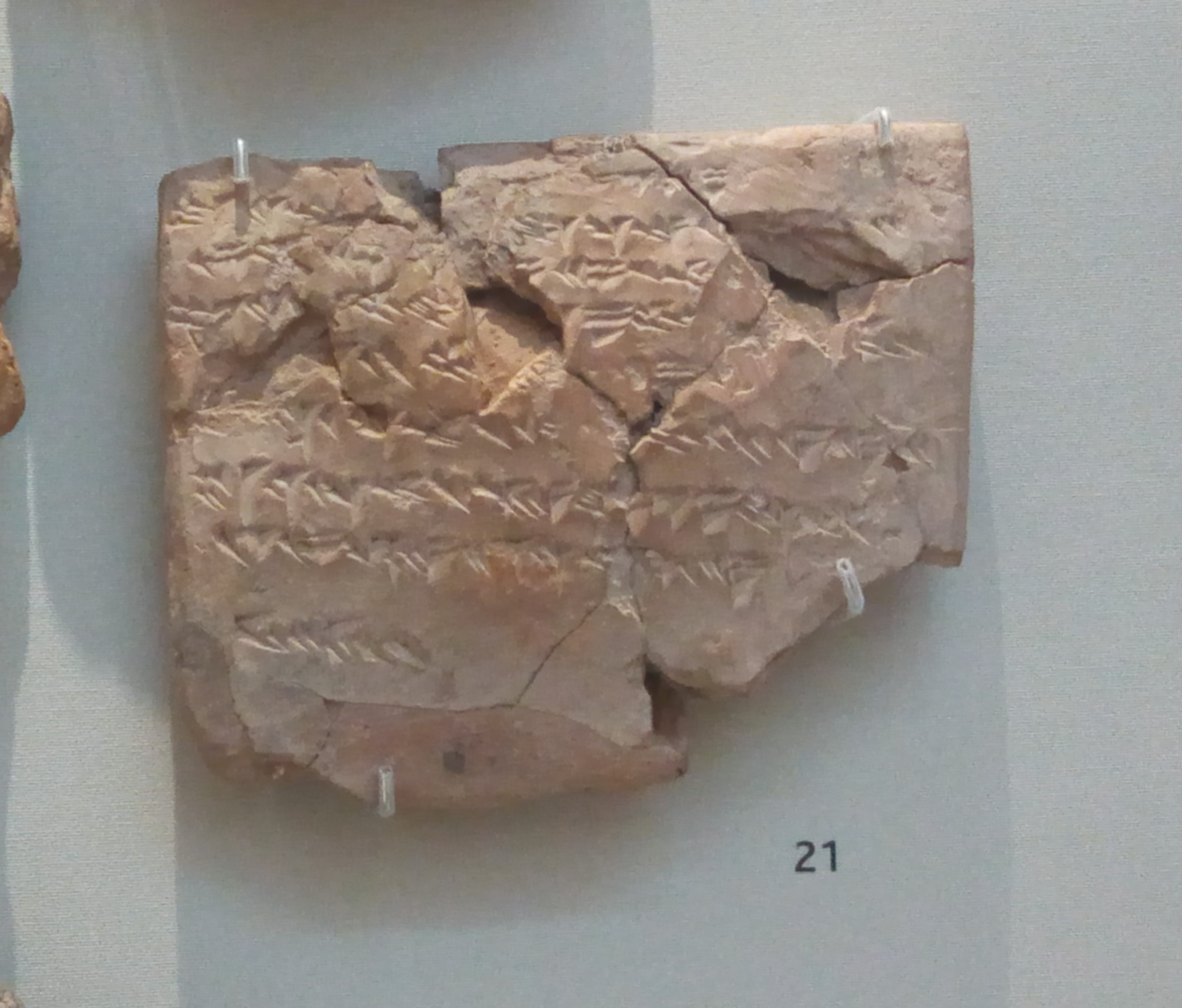 One of the latest dated cuneiform tablet, AD 61, Babylon, "Almanach" type. It gives the monthly positions of the planets in the zodiac, dates solstices, equinoxes, eclipses, rising of Sirius. From Babylon. 40084.